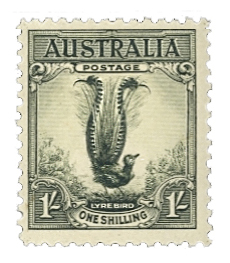 Postage stamp, Australia, 1932, Scott #141: The lyrebird.